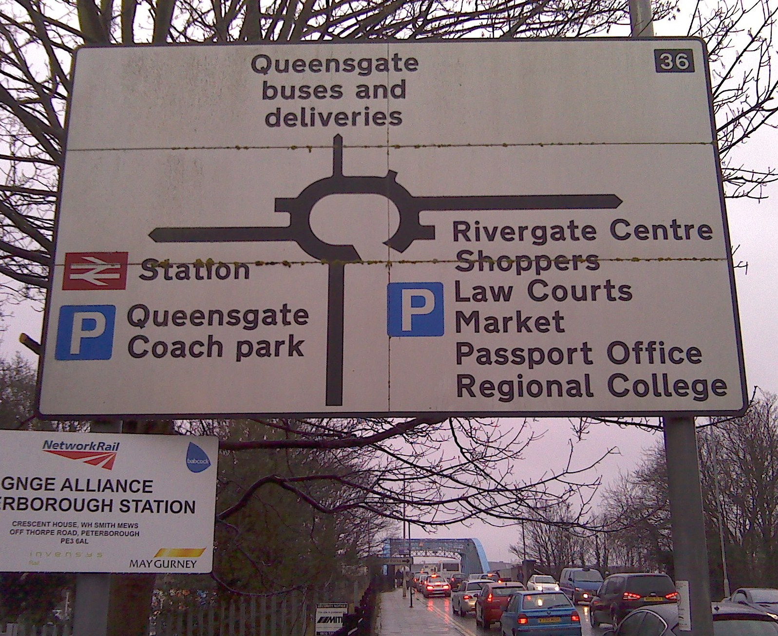 A roundabout sign in Peterborough, Cambridgeshire near the Queensgate shopping centre which is numbered.